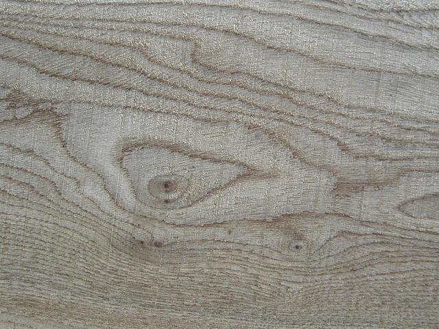 Oak